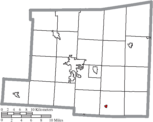 Map of the municipal and township boundaries of Knox County, Ohio, United States, as of the 2000 census, with the location of the village of Martinsburg highlighted. Township borders are shown only in unincorporated areas in order to differentiate incorporated and unincorporated areas more clearly.